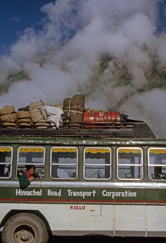 This picture was taken by Jonathan Claybaugh above Manali on the way to the Spiti Valley in August of 2000.